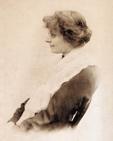 Eleanor Farjeon (pronounced far'-zhun) (February 13, 1881 – June 5, 1965) was an English author of children's stories and plays, poetry, biography, history and satire. Some of her correspondence has also been published. She won many literary awards and the prestigious Eleanor Farjeon Award for children's literature is presented annually in her memory by the Children's Book Circle, a society of publishers.